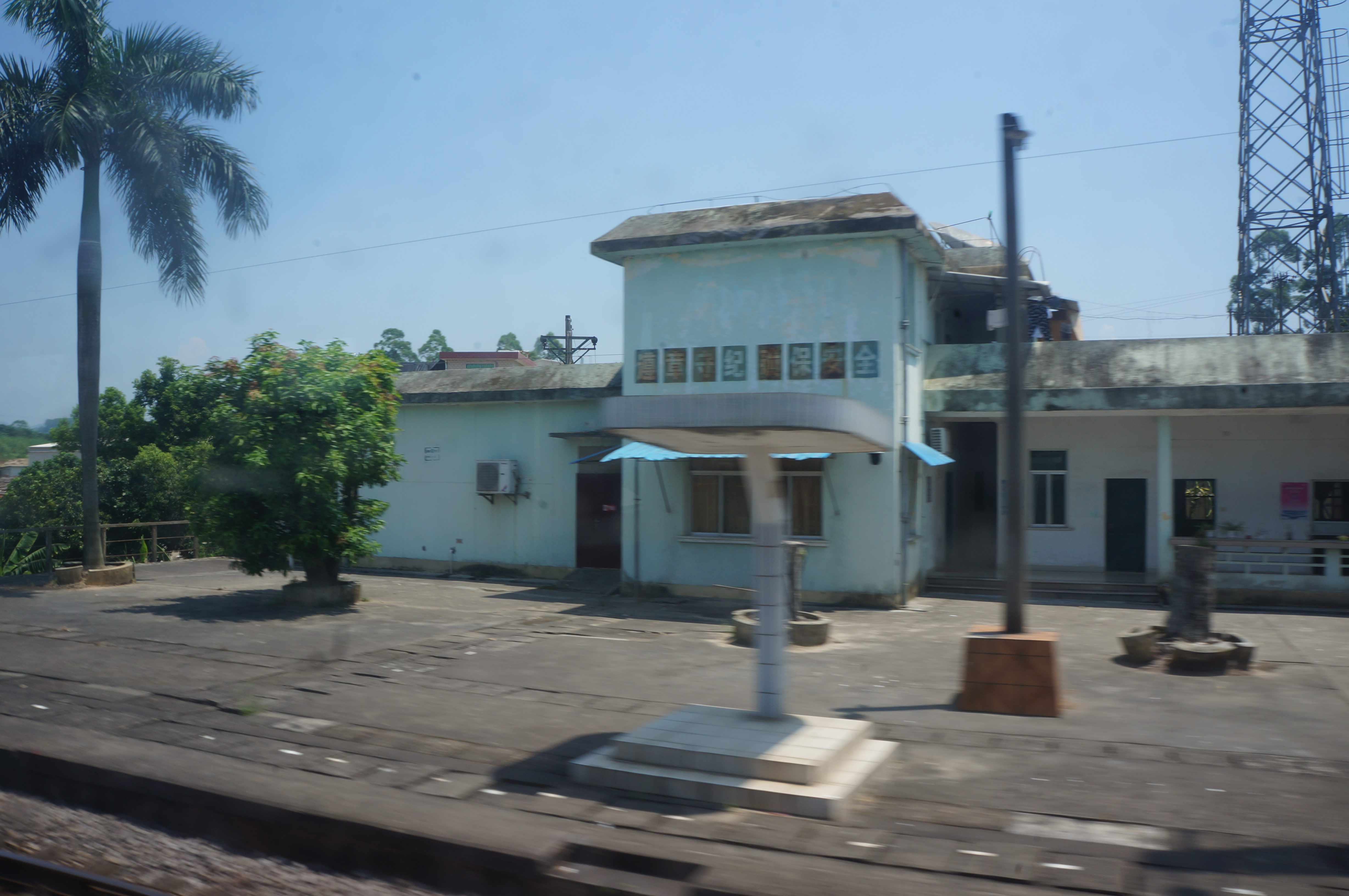 Chiang Thai Station. Next Station, Tiam Kho.